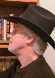 Barbara Lamar/Damien Broderick